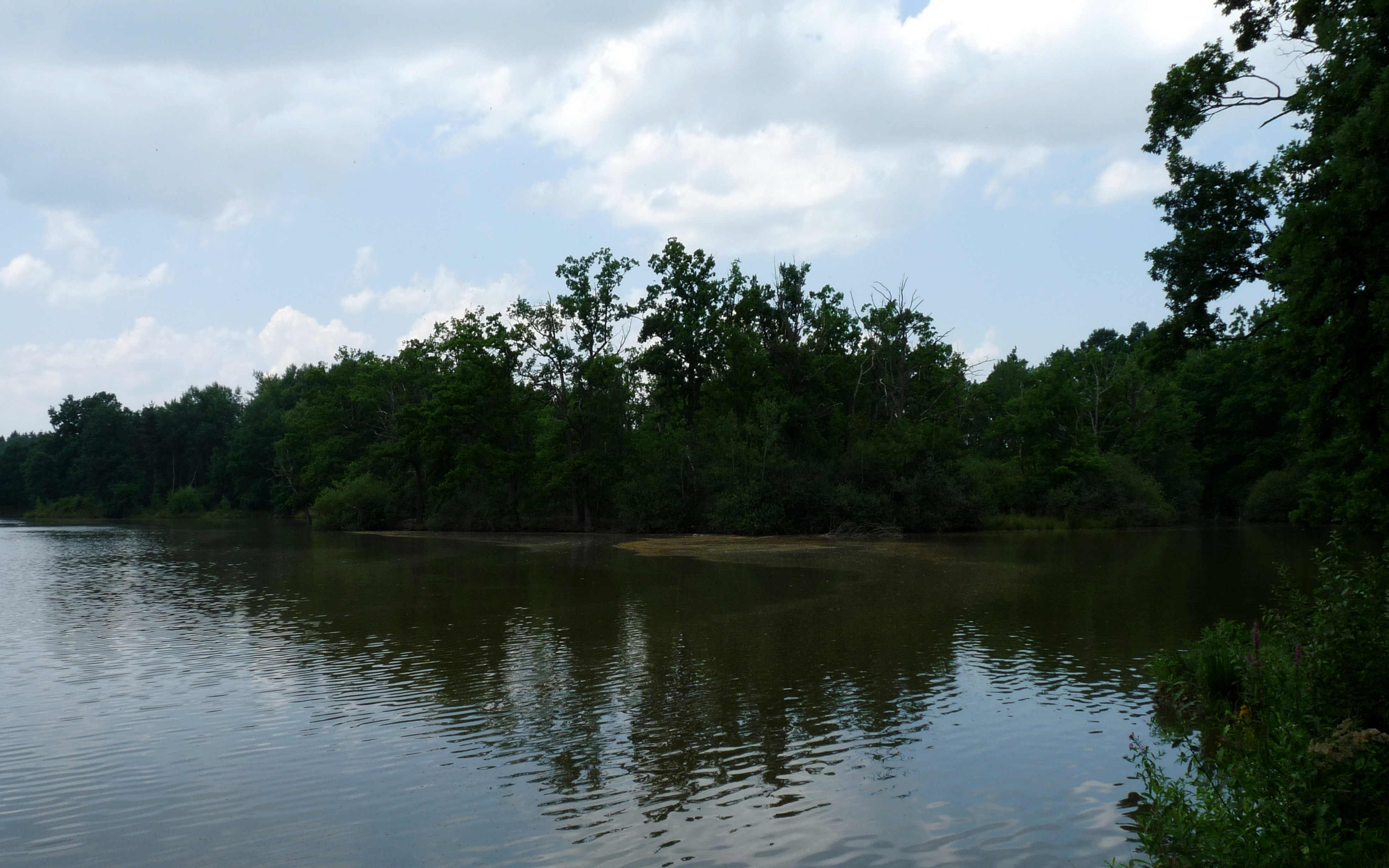 Place of the former fortress Doubíčko near the village of Branišov, České Budějovice District, South Bohemia, Czech Republic, as seen across Návesný pond.